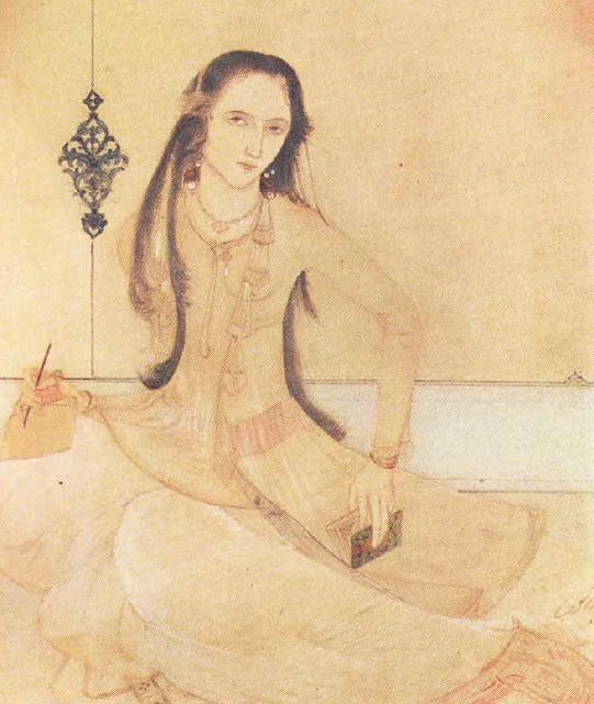 Princess Zeb-un-Nissa - watercolour by Abanindranath Tagore, c.1921